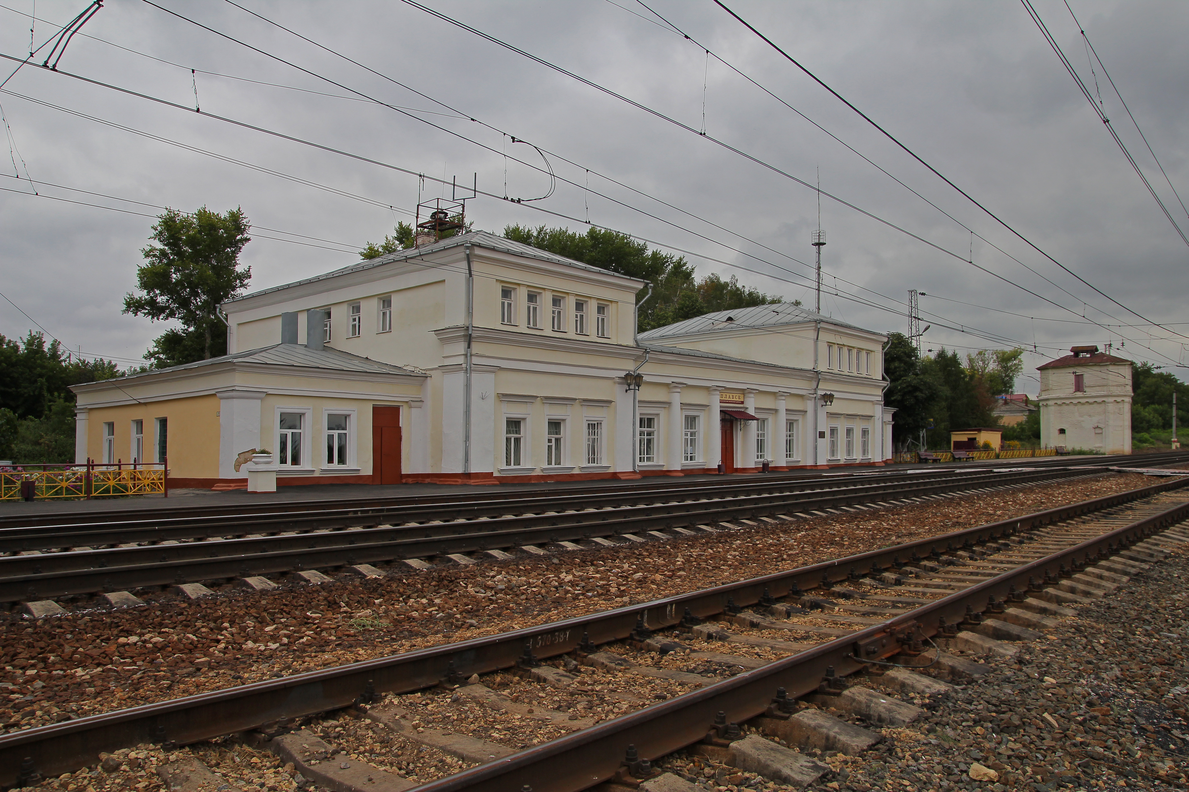 Train station with terminal in Plavsk (Tula Oblast, Russia)